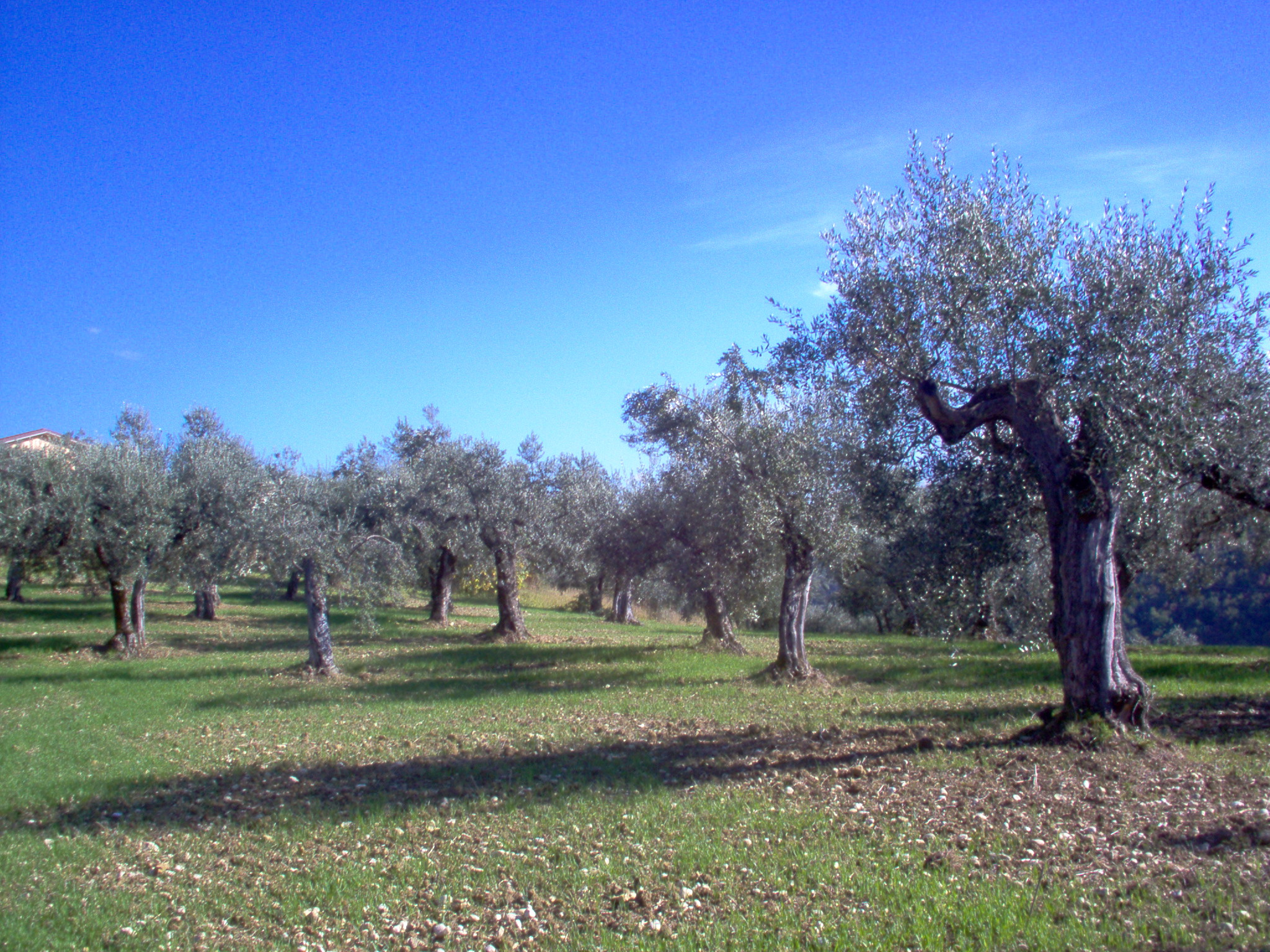 Ulive trees on the street which links Salisano (province of Rieti, central Italy) to provincial road n. 42 "Via Mirtense"